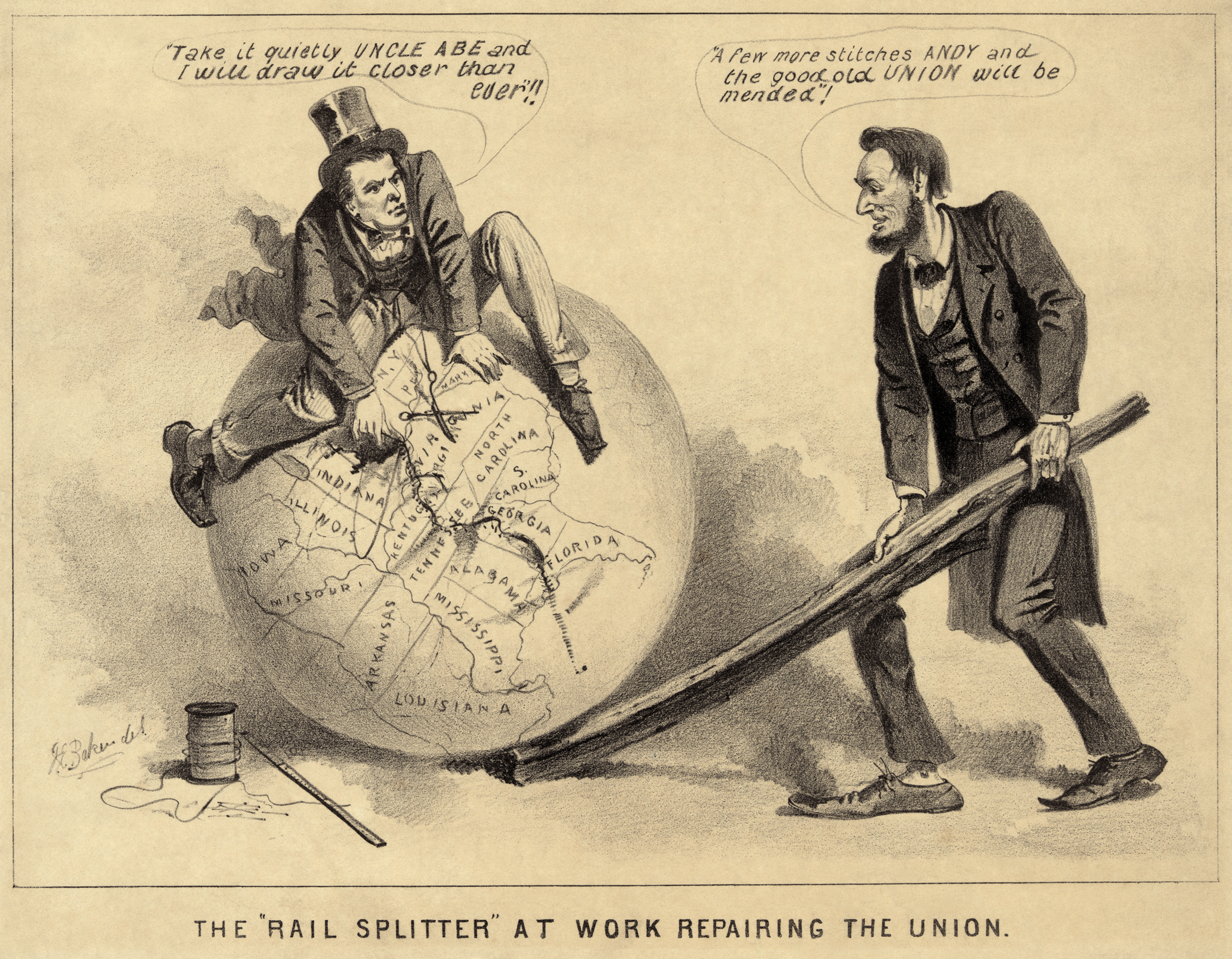 "The Rail Splitter Repairing the Union" — a political cartoon of Andrew Johnson and Abraham Lincoln from 1865, during the Reconstruction era of the United States (1863–1877). Cartoon print shows Vice President Andrew Johnson sitting atop a globe, attempting to stitch together the map of the United States with needle and thread. Abraham Lincoln stands, right, using a split rail to position the globe. Johnson warns, "Take it quietly Uncle Abe and I will draw it closer than ever." While Lincoln commends him, "A few more stitches Andy and the good old Union will be mended."